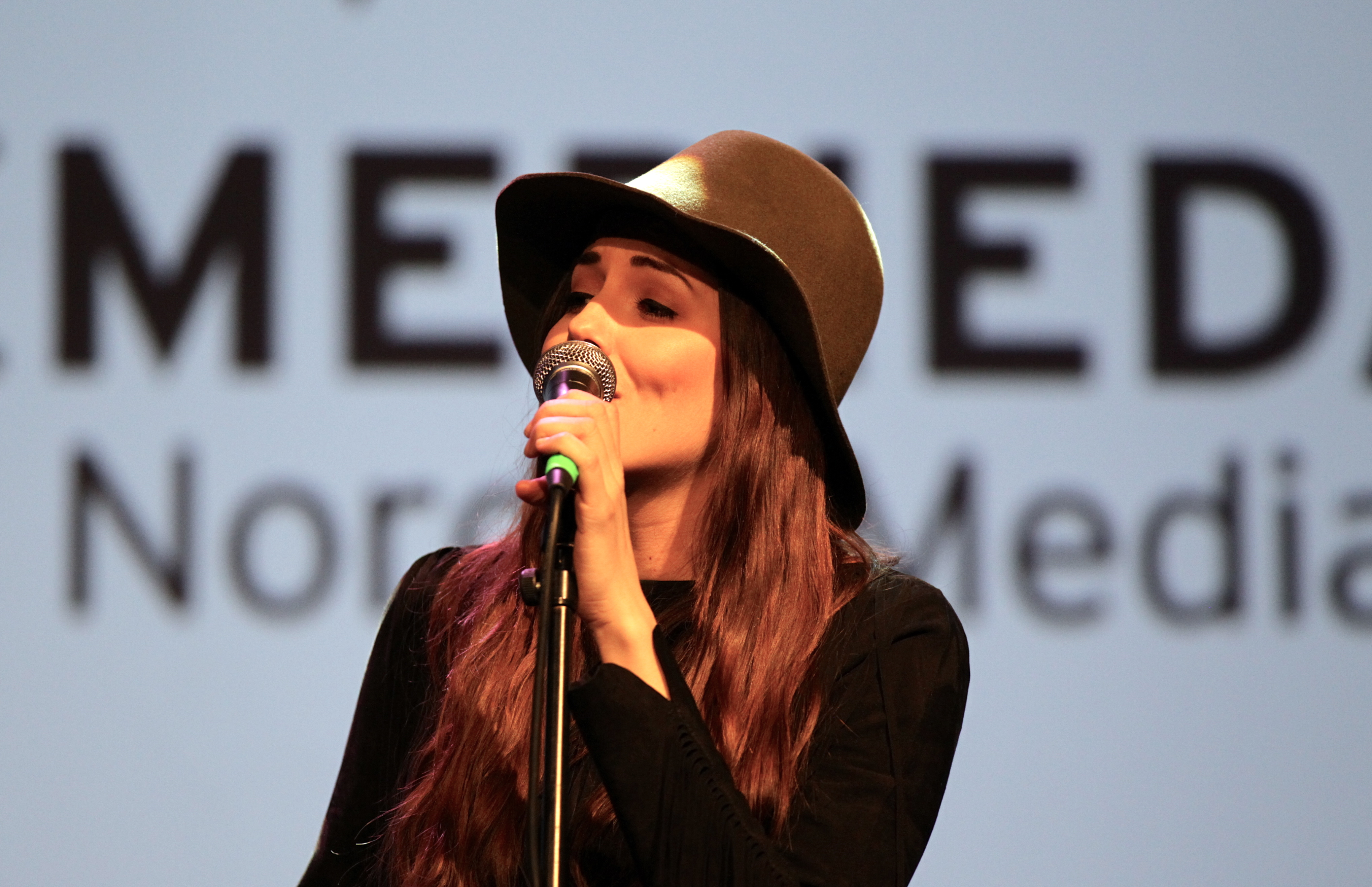 Marion Ravn at Nordiske Mediedager 2013